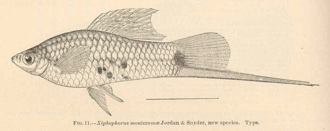 Xiphophorus montezumae Jordan & Snyder, new species. Type Subject: Xiphophorus Tag: Fish